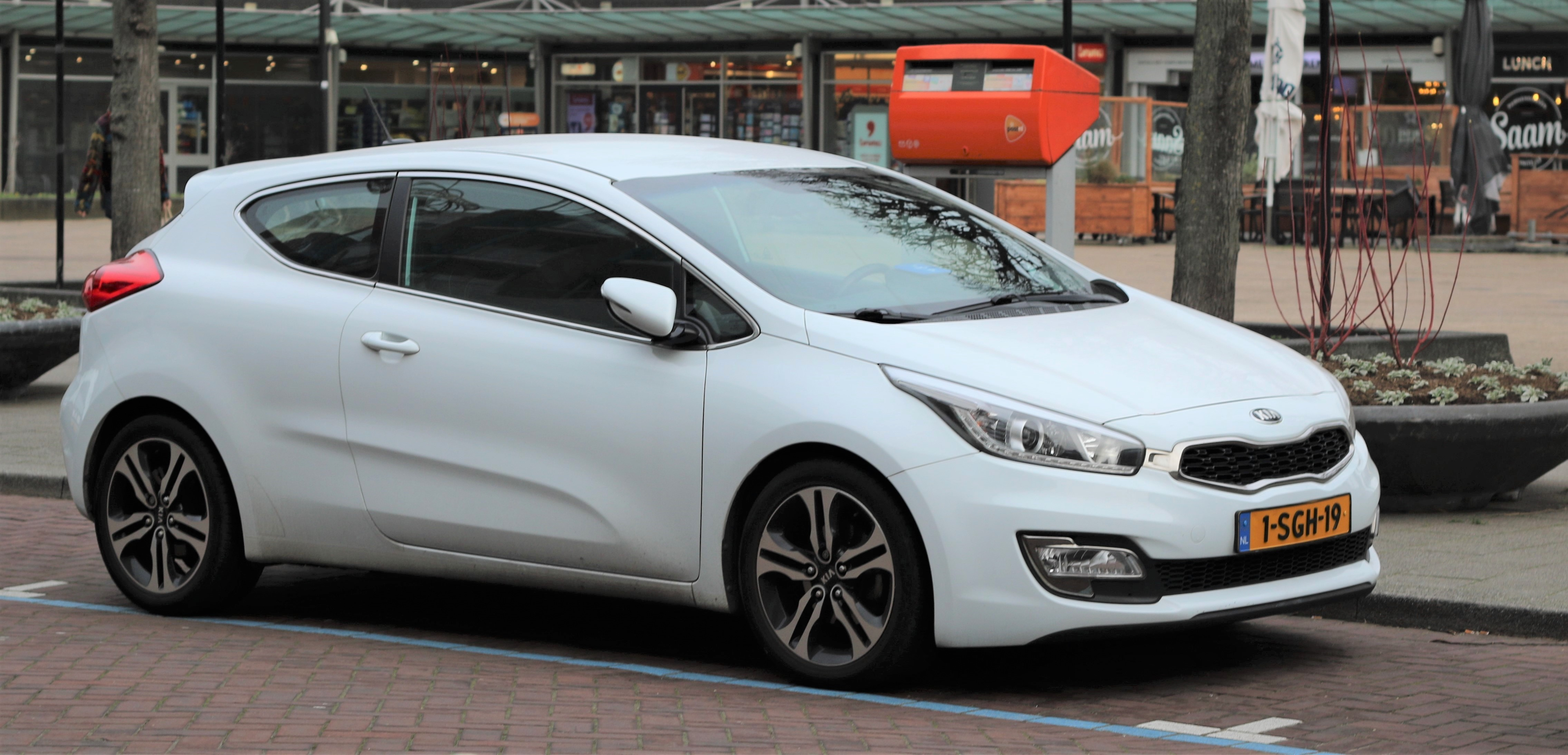 Kia Procee'd GT with letter box in Hoek van Holland